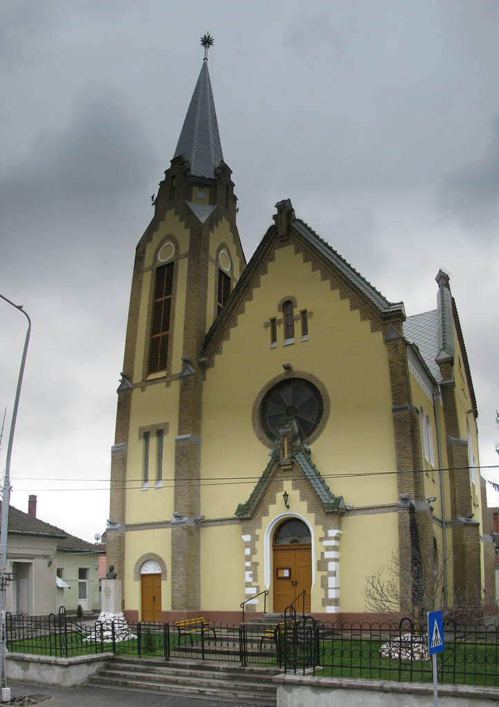 Reformed (Calvinist) church in Lugoj/Lugos, Romania